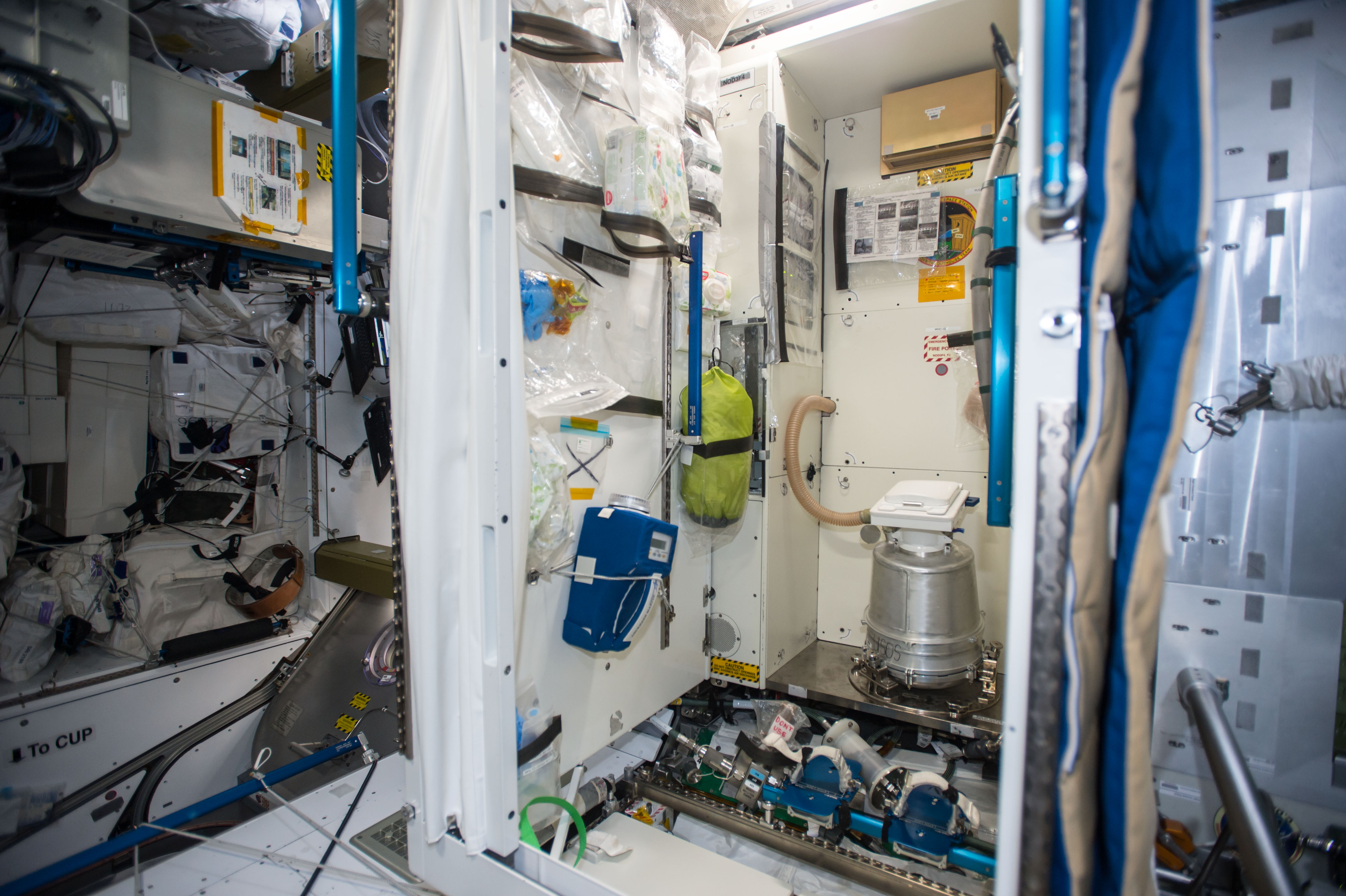 Microbial Tracking-2 by the toilet in the Node 3 module monitoring microbes present to assess the health environment on the International Space Station (ISS) and understand the effects of the spaceflight environment on viral and microbial pathogen dynamics.